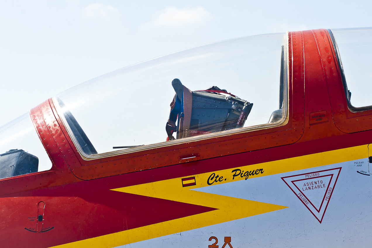 Cockpit